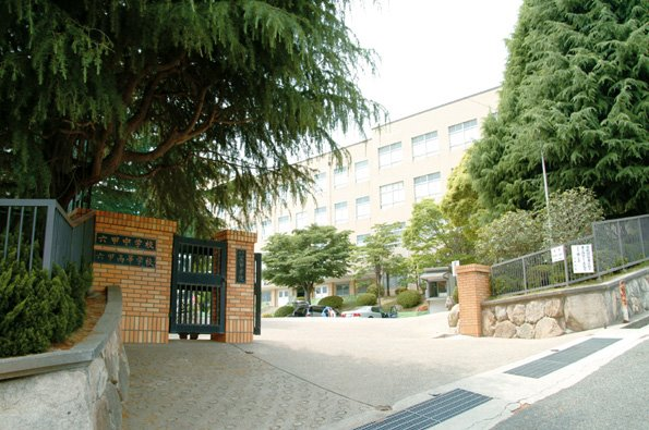 old rokko